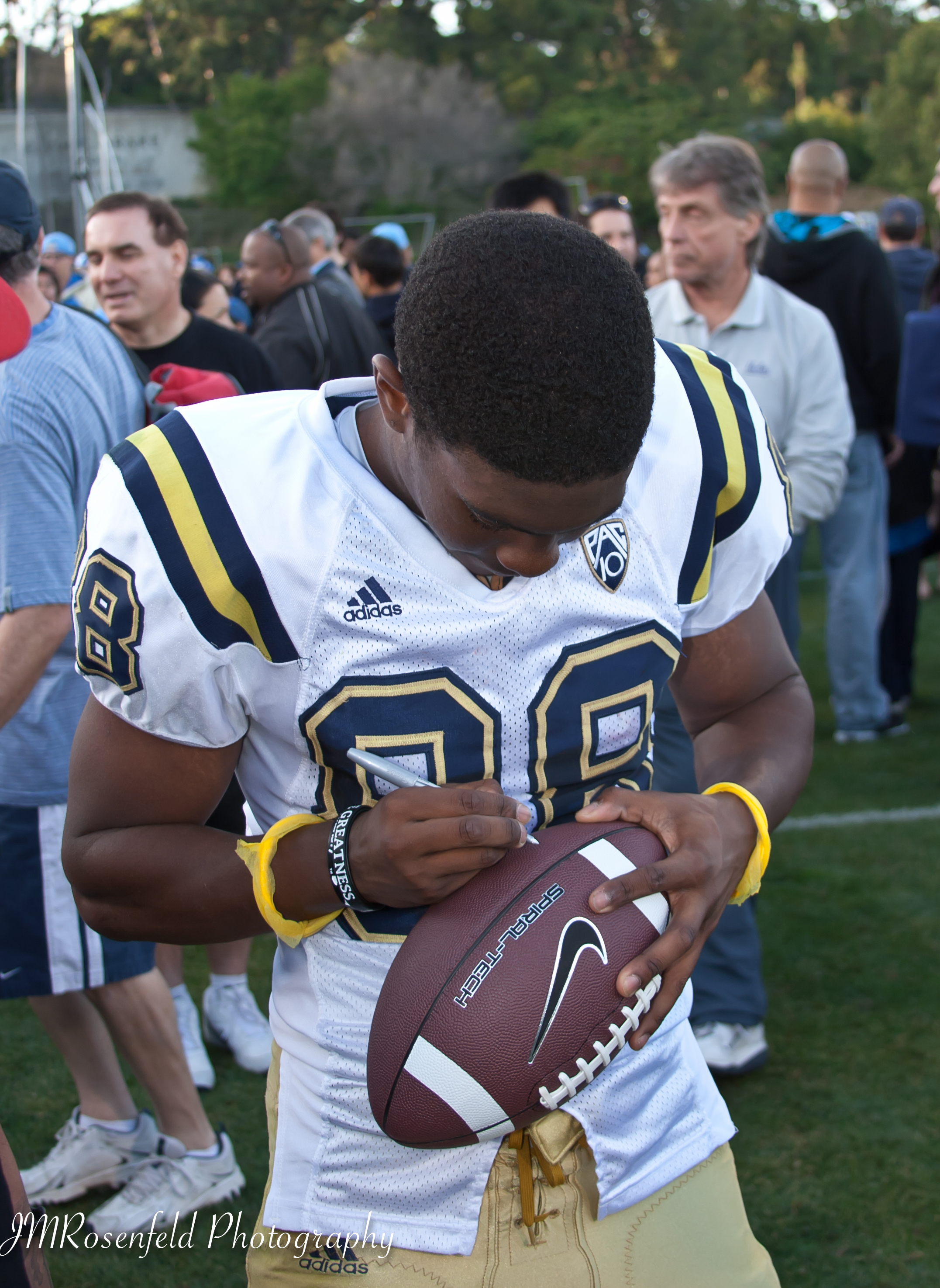 Jerry Rice Jr.